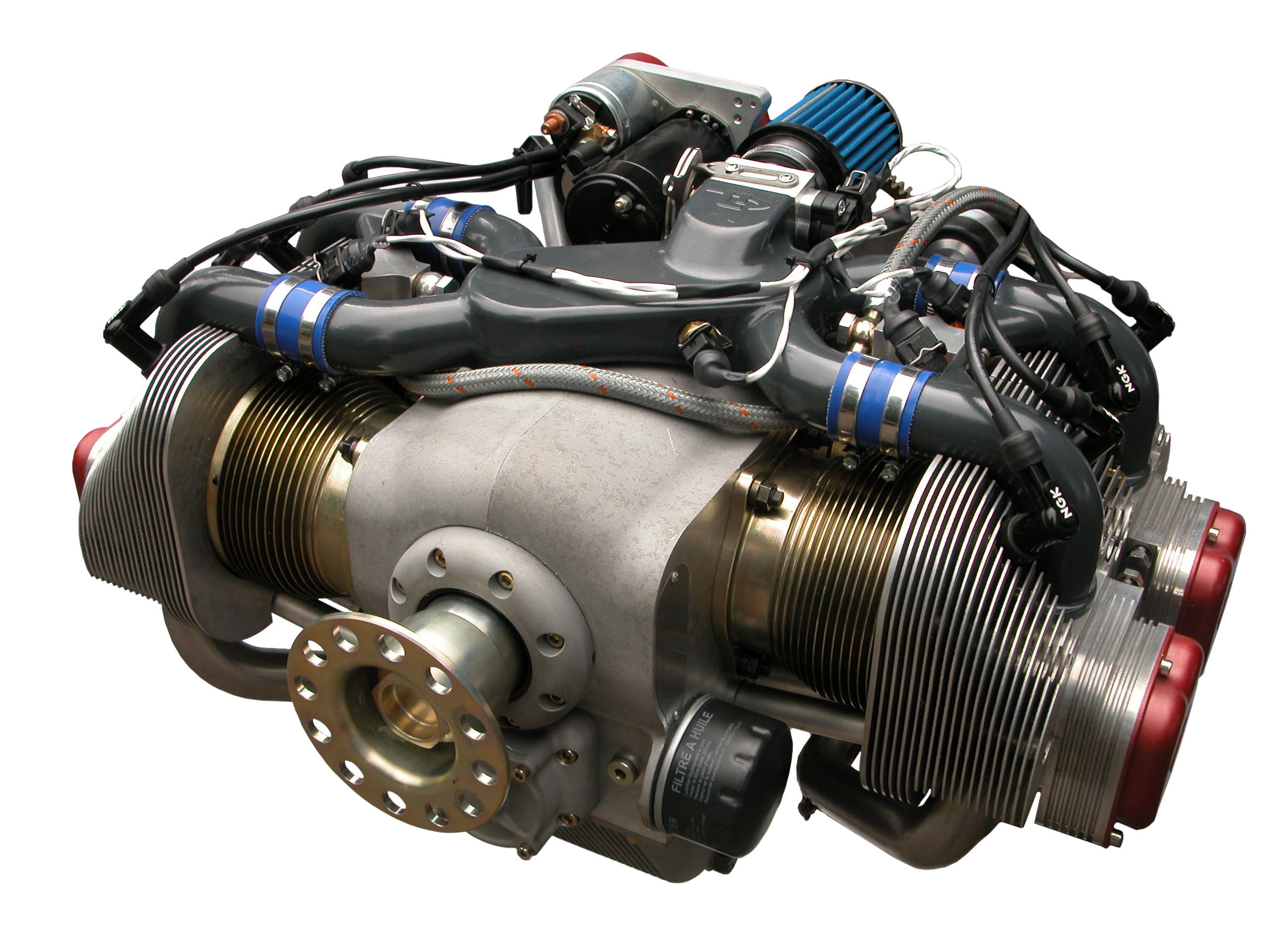 The ULPower UL260i is a flat four, air-cooled, fuel injection aircraft engine, produced by ULPower in Belgium.